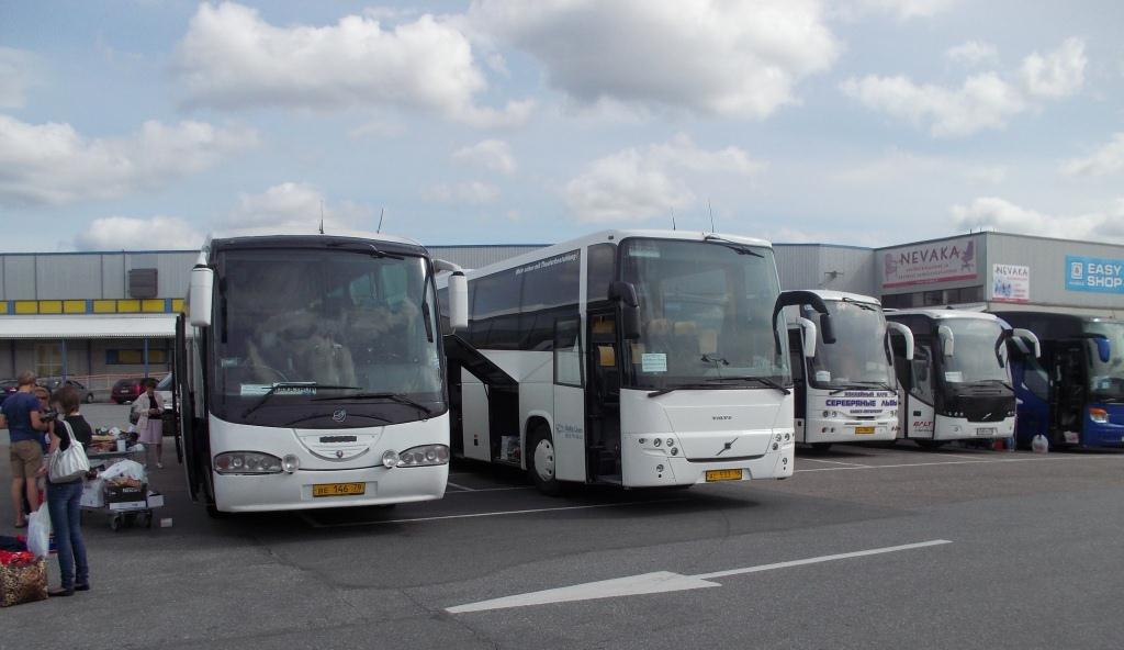 Lappeenranta Russian tourists coahes near Prisma hypermarket